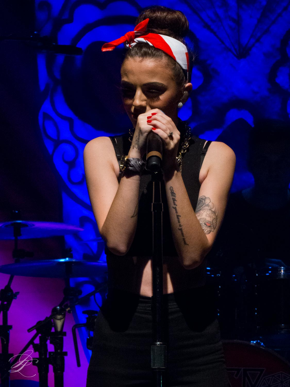 Cher Lloyd performs during her show at The Bluebird in Denver, CO on September 18, 2013.